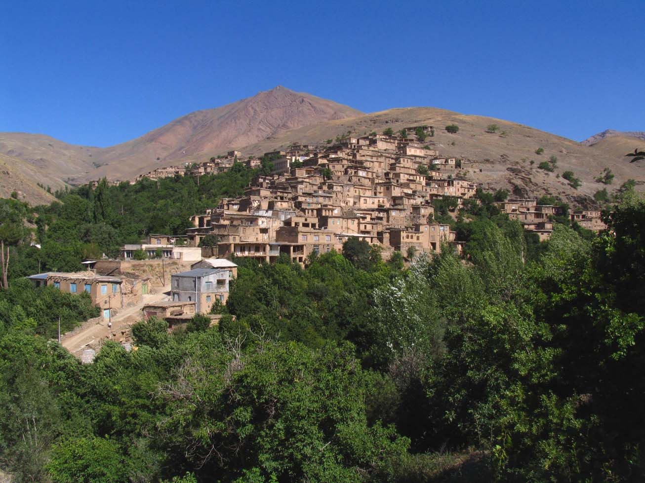 North Dizbad - Nishapur 2